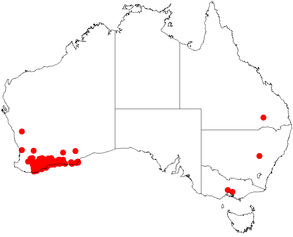 Acacia glaucoptera occurrence data from Australasian Virtual Herbarium downloaded from on December 8 2018